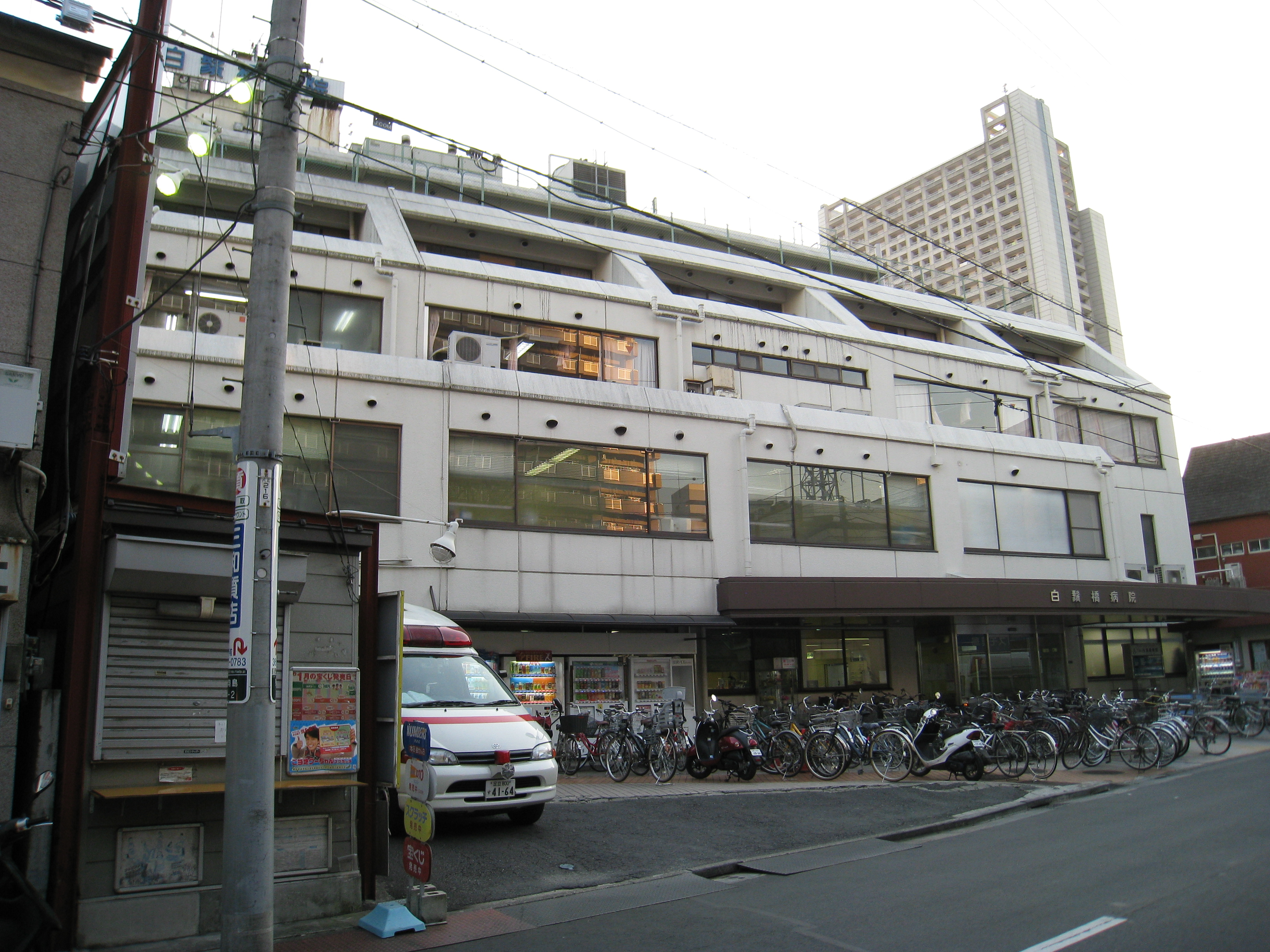 Shirahigebashi Hospital